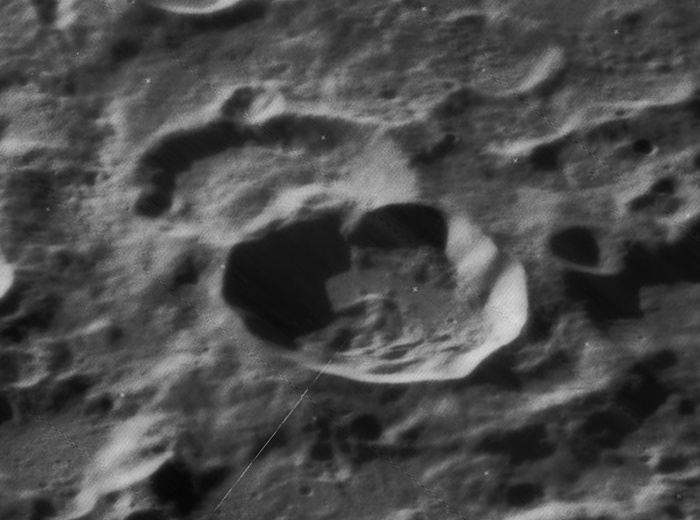 Oblique view of Hayn E (below center) and Hayn J (above center) craters (west of Hayn), facing west, on the moon.